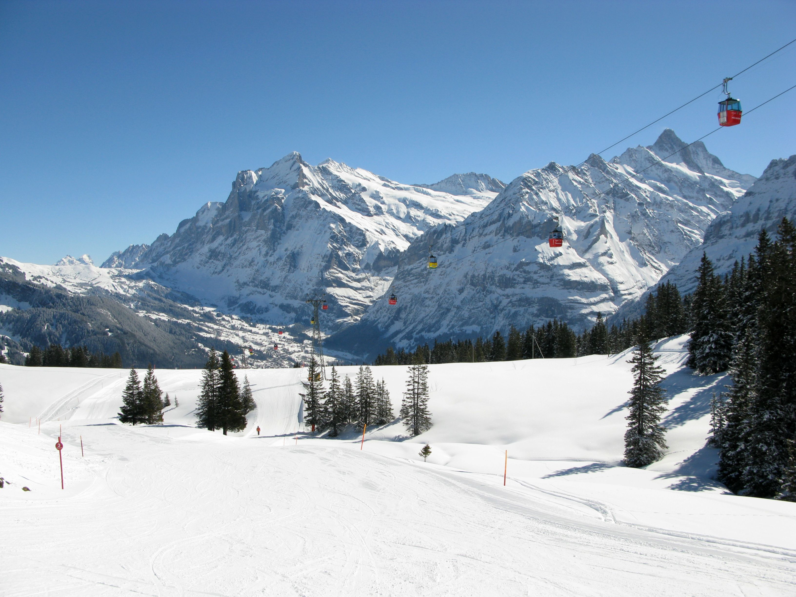 Gondola Cable Car Grindelwald-Männlichen, Switzerland